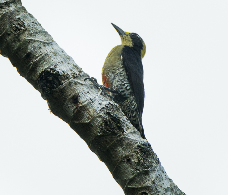 Yellow-naped Woodpecker fem - Rio Tigre - Costa Rica_S4E9883